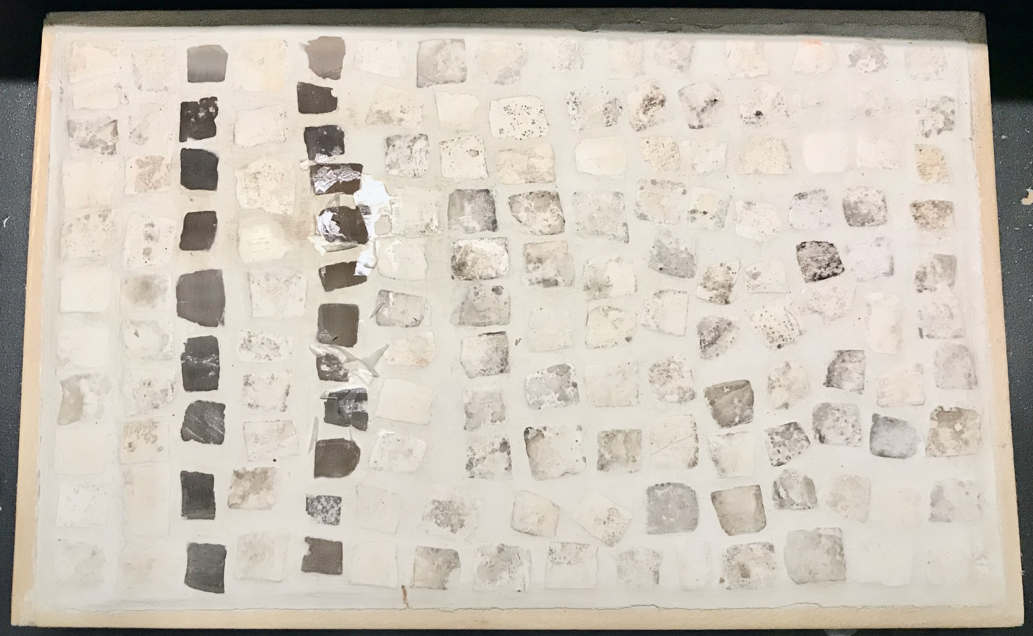 Mosaic fragments set in plaster, held at the Horsham Museum, originally from a Roman temple at the Chanctonbury Ring in West Sussex, UK